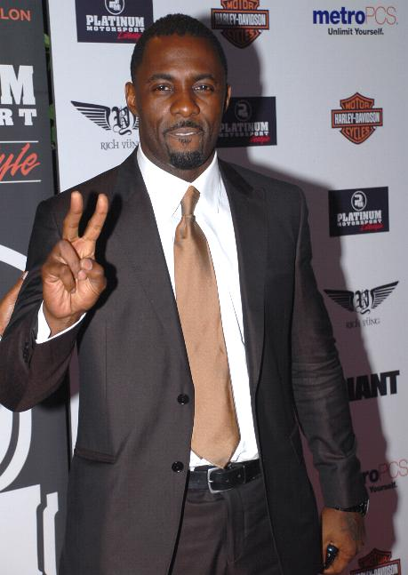 Idris Elba at a 2007 American Music Awards after-party